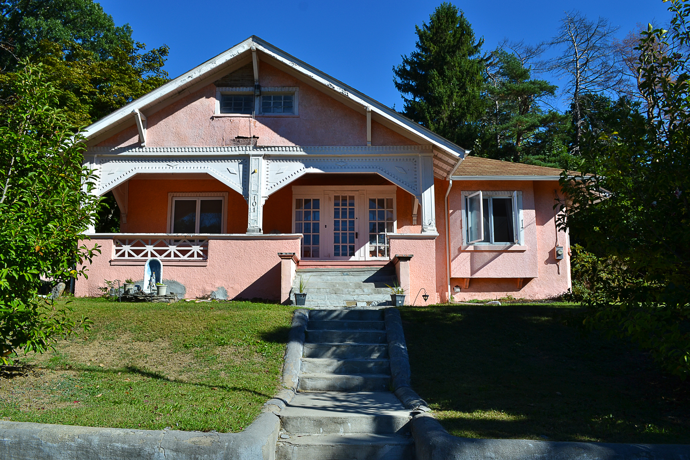 Mader House Mader House, 101 Corlies Ave, Poughkeepsie, NY. Western (front) facade